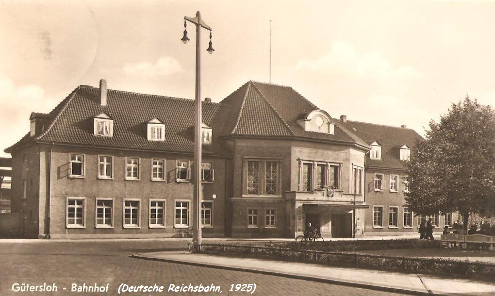 railway station (today: central station) Gütersloh, former passenger terminal German Empire Railway of 1925 (destroyed in 1945)